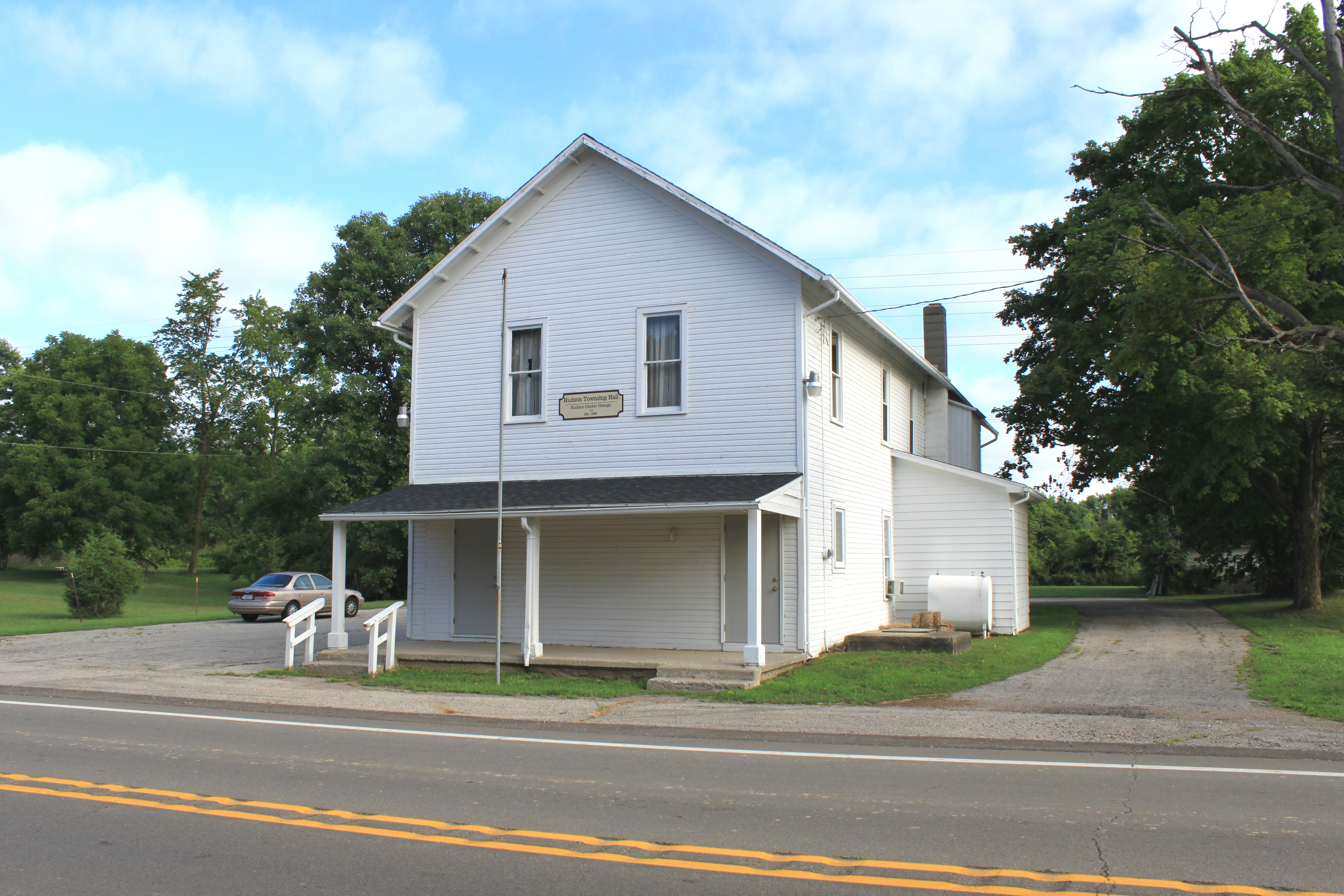 Hudson Michigan Township Hall — at 14510 Carleton Road, Hudson Township, Lenawee County.